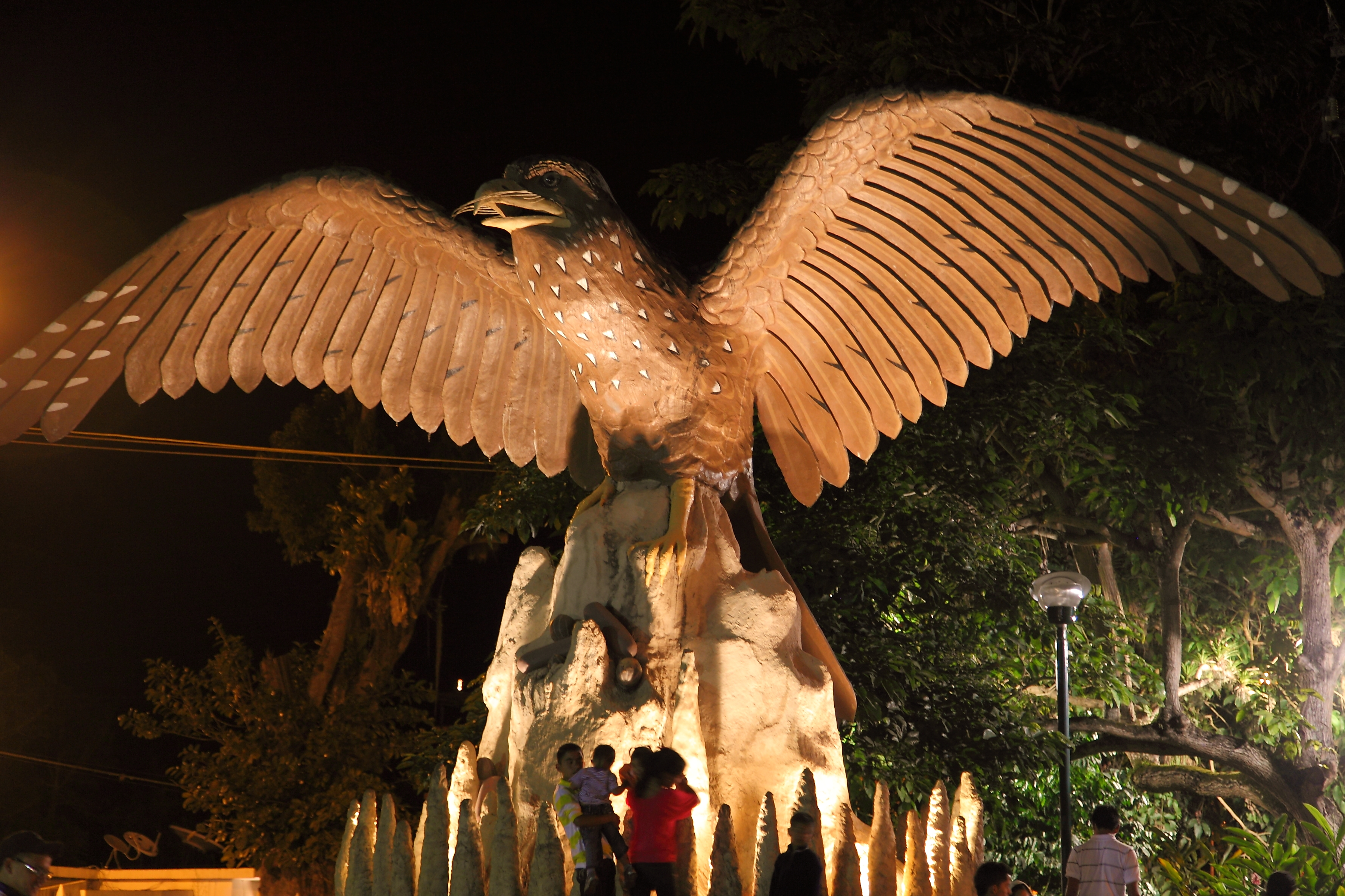 Inhabitant of the famous cave that bears his name in Caripe, Monagas